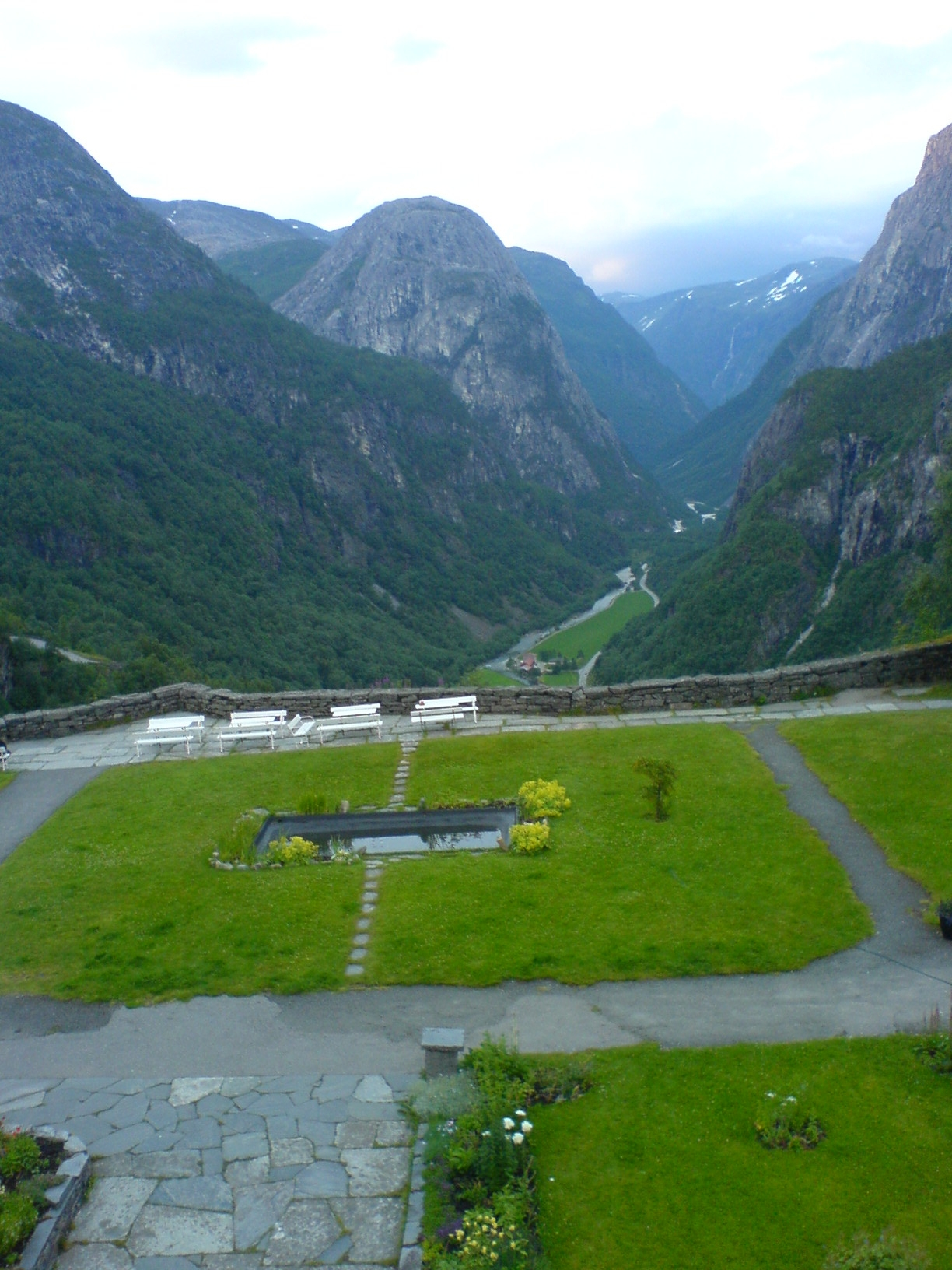 View from a room on the first floor at Stalheim Hotel outside of Voss in Norway